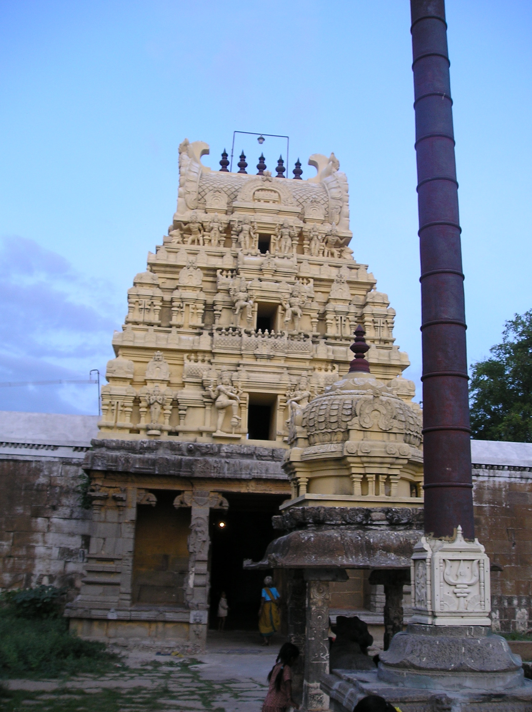 Tirukalimedu